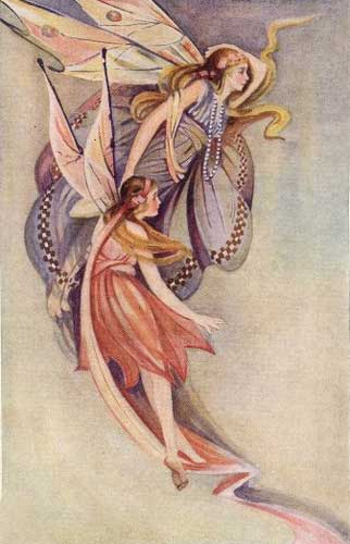 "Come then," said Wonderwings. She took the little fairy's hand and up they rose into the clear air. - from Wonderwings and other Fairy Stories by Edith Howes. Illustrated by Alicea Polson. Retrieved from Project Gutenberg, public domain document.